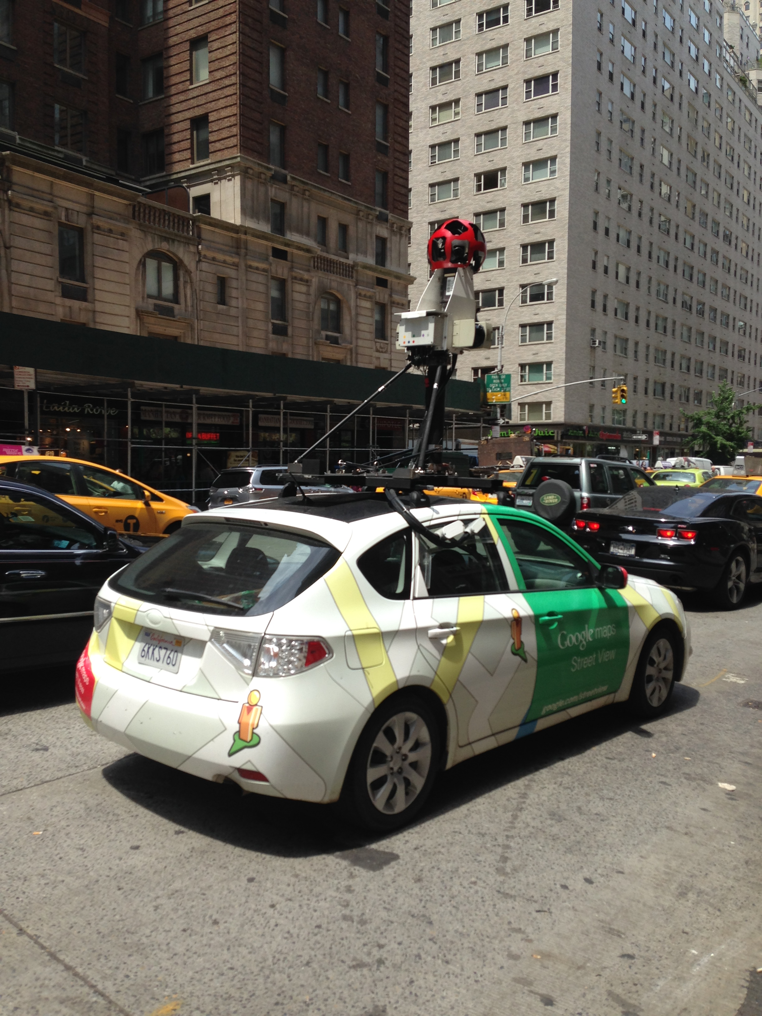 Rear view of Google Street View camera car in New York City. The cameras are mounted on the roof rack and the data links are fed in to the car through the right rear passenger window.